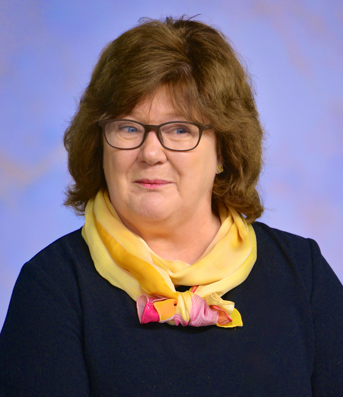 Swedish literature month was launched on 1 November 2012, involving projects around the world to promote Sweden's literature exports. The grand finale took place on Thursday 22 November at the Press Centre at Rosenbad, with a number of Swedish authors in attendance.